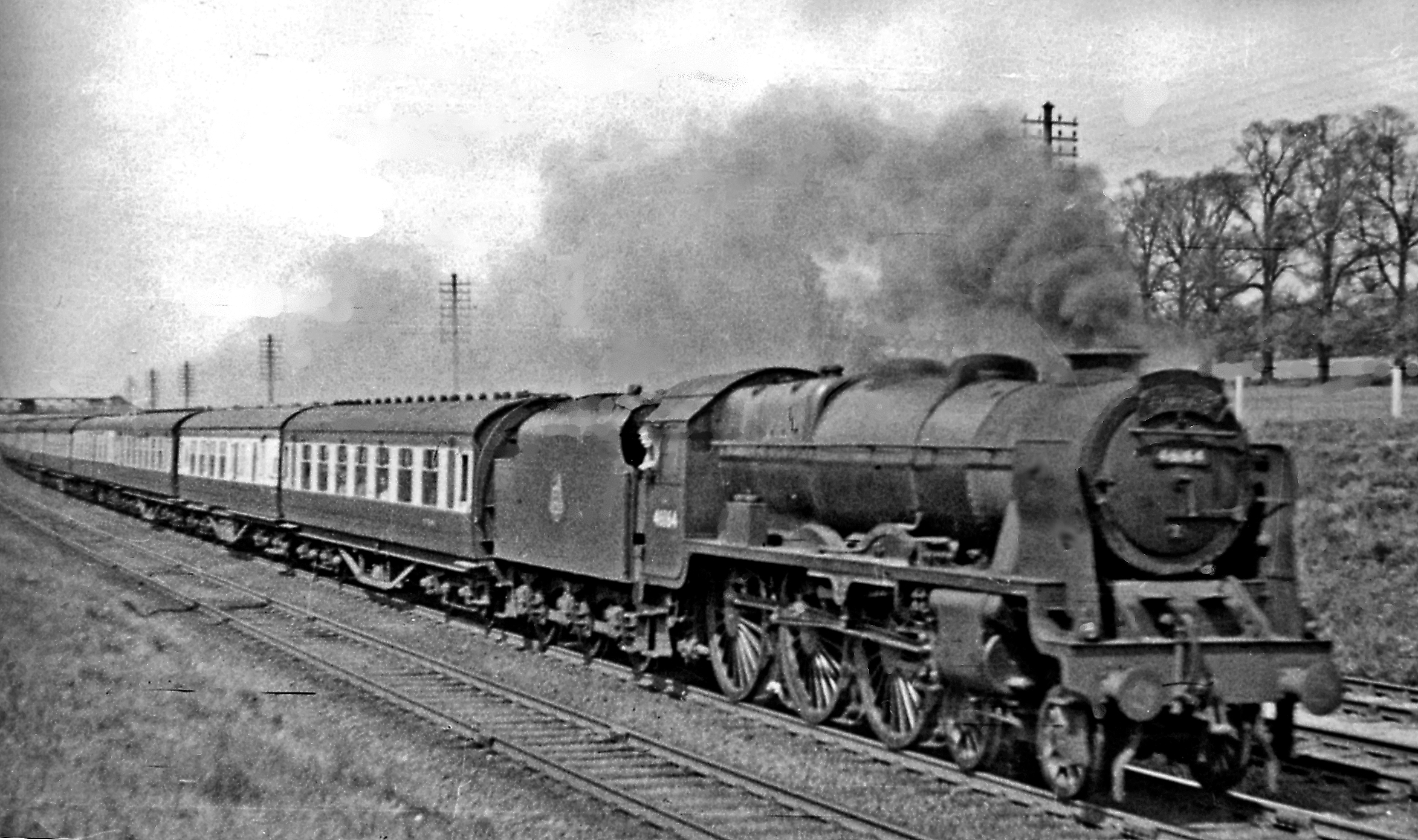 Up 'Merseyside Express' between Tring and Berkhamsted. View NW, towards Bletchley and the North from just north of Northchurch Tunnel: WCML. Normally worked by a Pacific, that day (Cup Final Day) the 'Merseyside Express' (10.00 Liverpool Lime Street (non-stop) to Euston) had Rebuilt 'Royal Scot' 7P 4-6-0 No. 46164 'The Artists' Rifleman' (built 9/30, rebuilt 6/51, withdrawn 12/62).